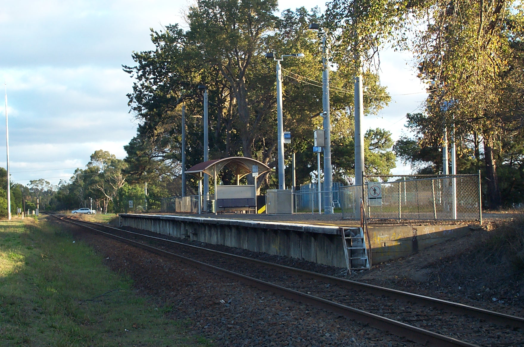 Baxter railway station, Melbourne